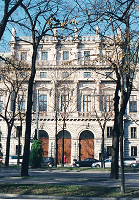 OFID Headquarters